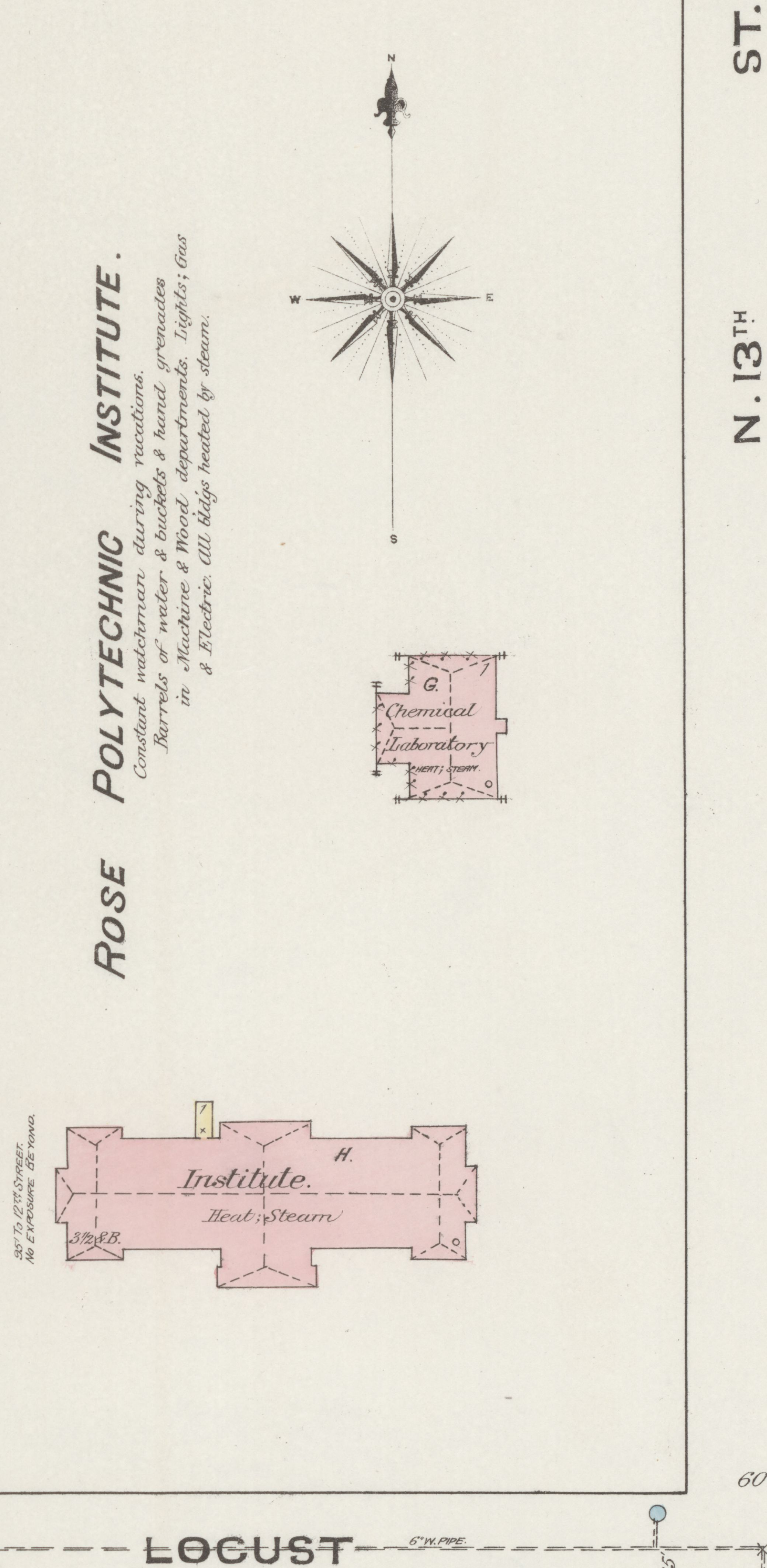 Apr 1886. 27 Sheet(s).